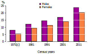 Australians claiming No Religion, 1971-2011